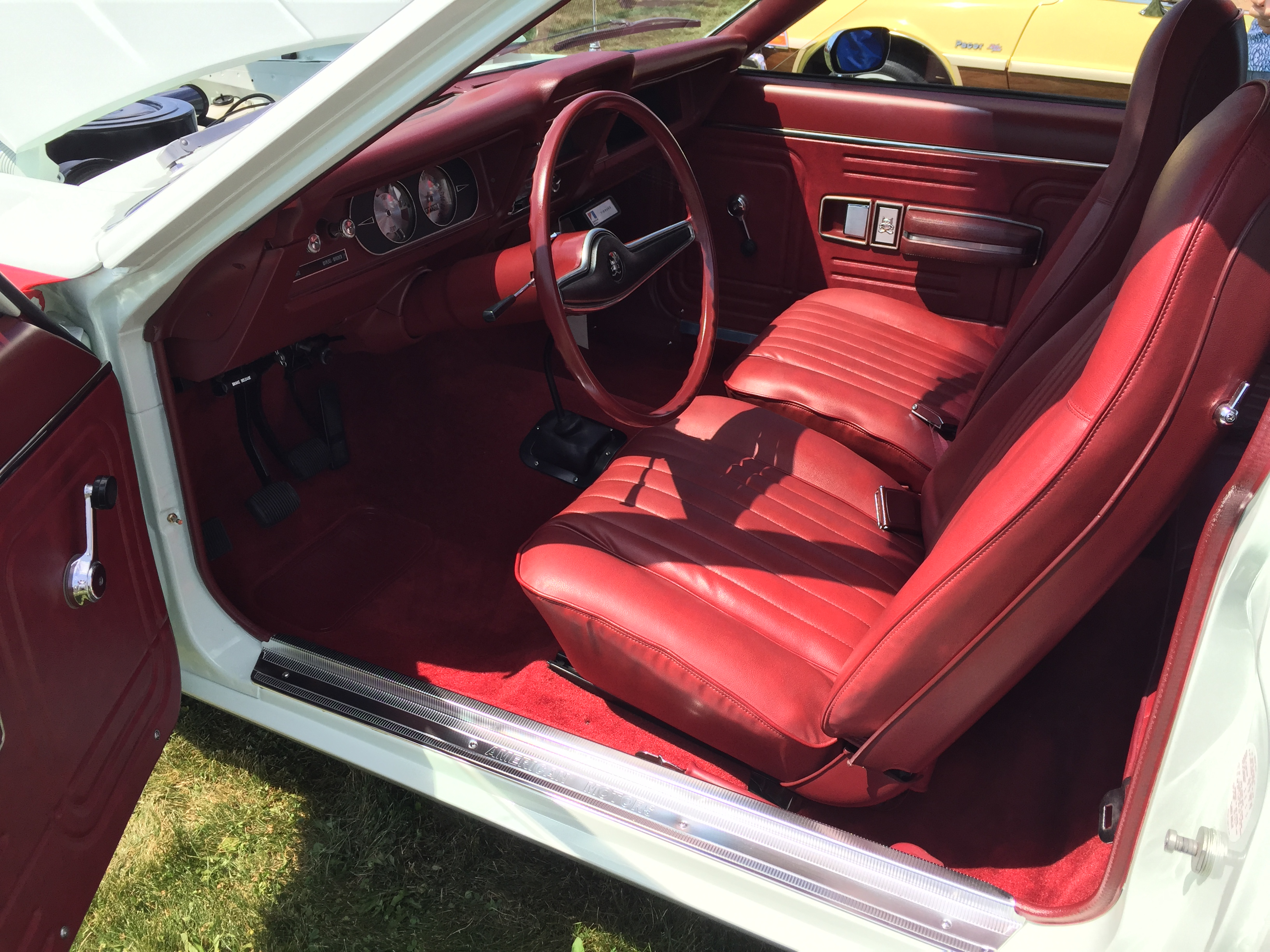 1971 AMC Gremlin, a low priced (suggested base price of $1,999.00) and an economical subcompact built by American Motors Corporation (AMC). This car is in original factory condition and is finished in Snow White with red "rally" side stripes. It has the Custom Interior package in red that includes the high back bucket front seats. It has the optional 258 cu. in. (4.2 L) I6 engine with a 3-speed manual floor shift. It was also ordered from the factory with power steering, power brakes, AM radio, luggage rack, tinted glass, full wheel covers, and a heavy-duty battery. Total suggested retail price was $2694.50, including the transportation charges. It was sold by Taylor Motors in Redding, California. The car has been upgraded to whitewall tires. Picture taken during the American Motors Owners Association (AMO) annual convention that was held July 2015 near Cleveland, Ohio.